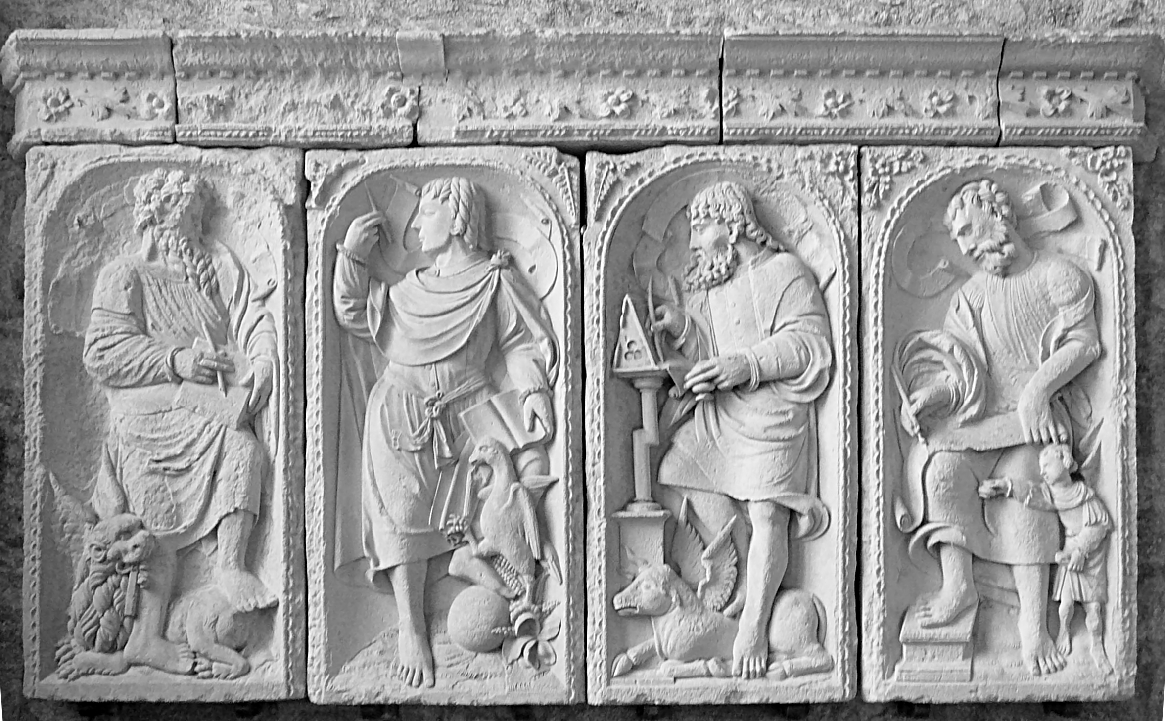 Four Evangelists in Mont Saint-Michel